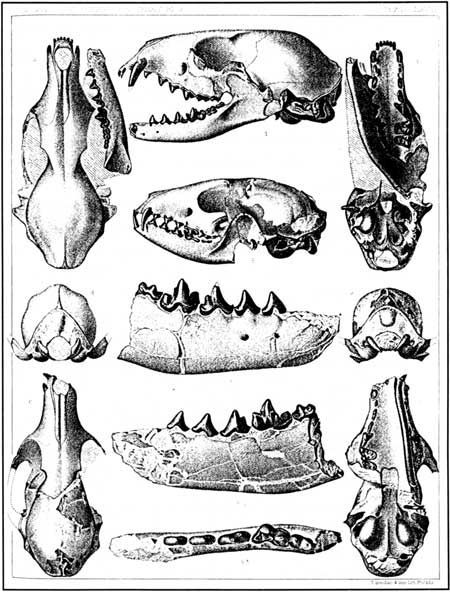 fossile skulls and mandibles of Canidae, John Day Epoch, found in todays John Day Fossil Beds National Monument, Oregon. Published 1884 by Edward Drinker Cope (1840-1897), paleontologist for the U.S. Geological Survey